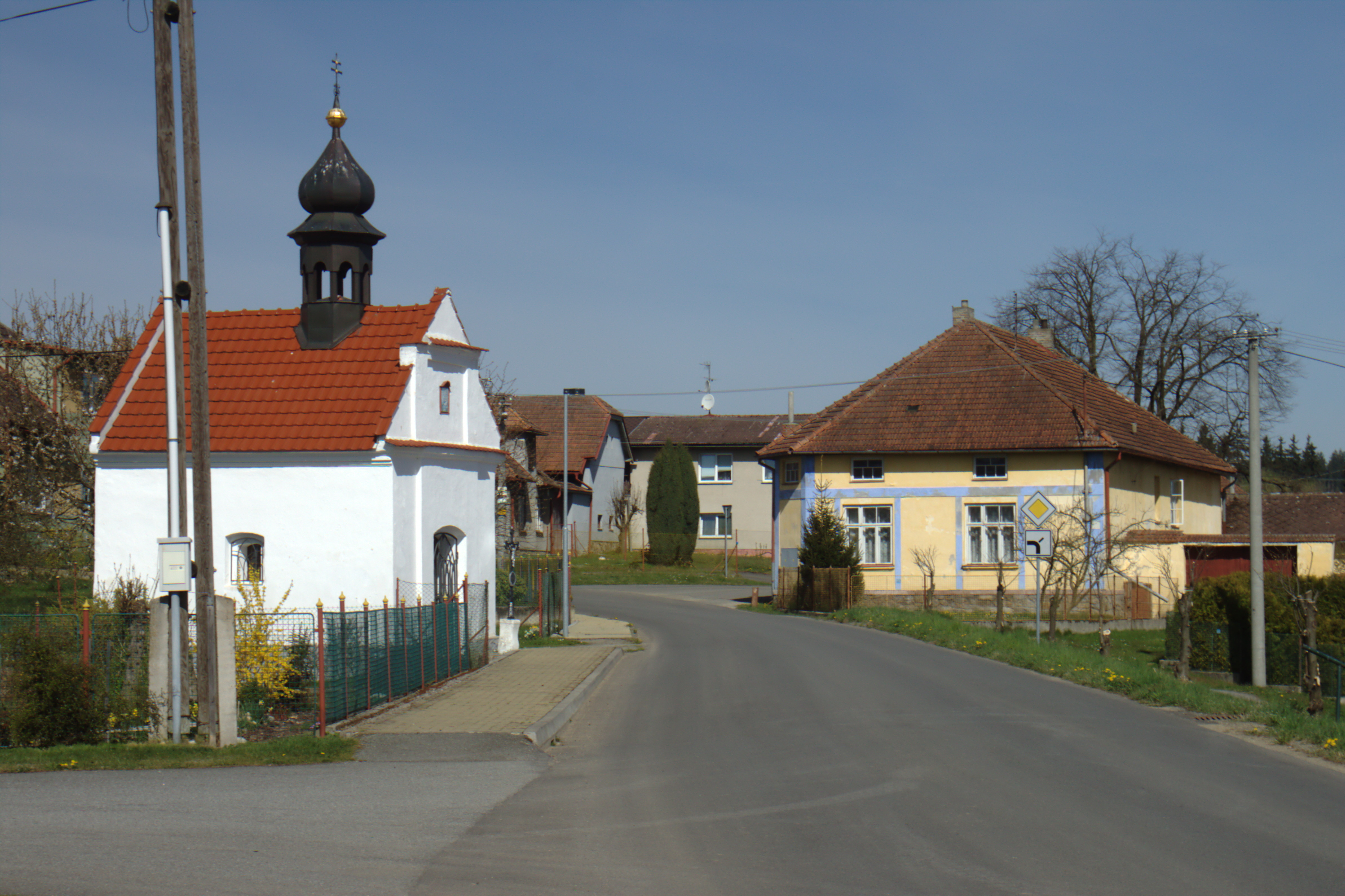 A chapel in the central part of the village of Vlásenice near Pelhřimov, Vysočina Region, CZ